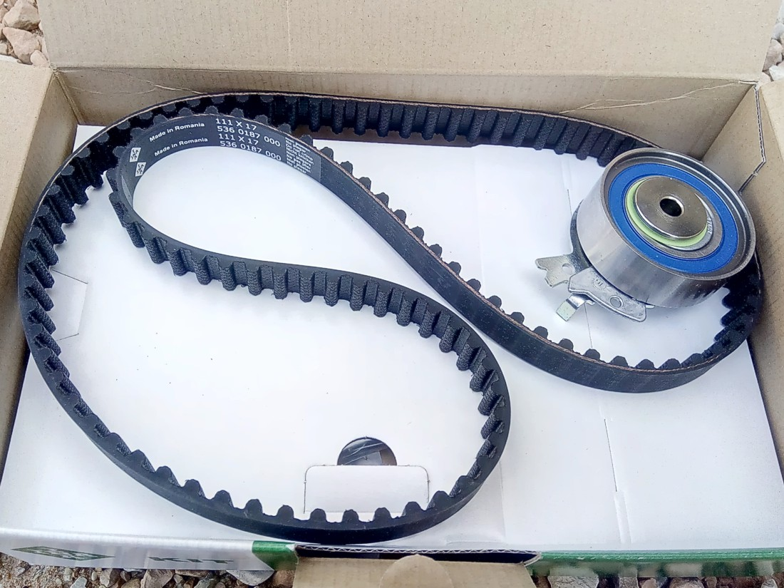 Timing belt with attached automatic tensioner